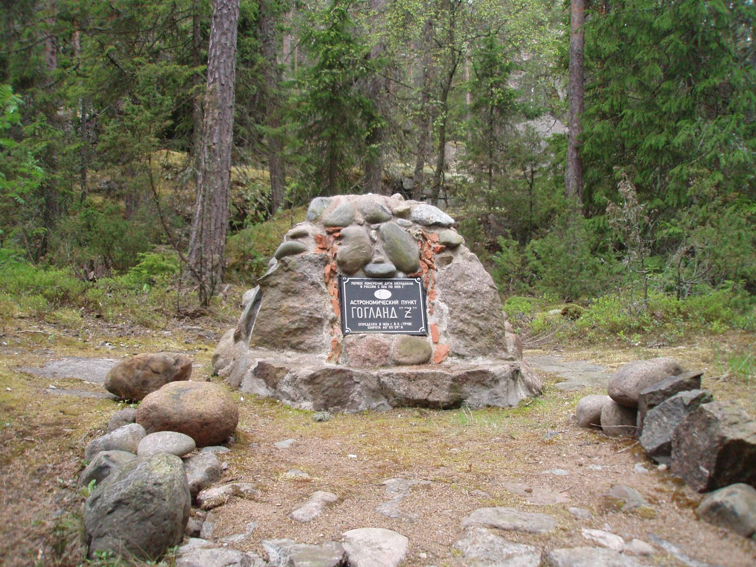 Memorial site on Hogland for Struve's arc